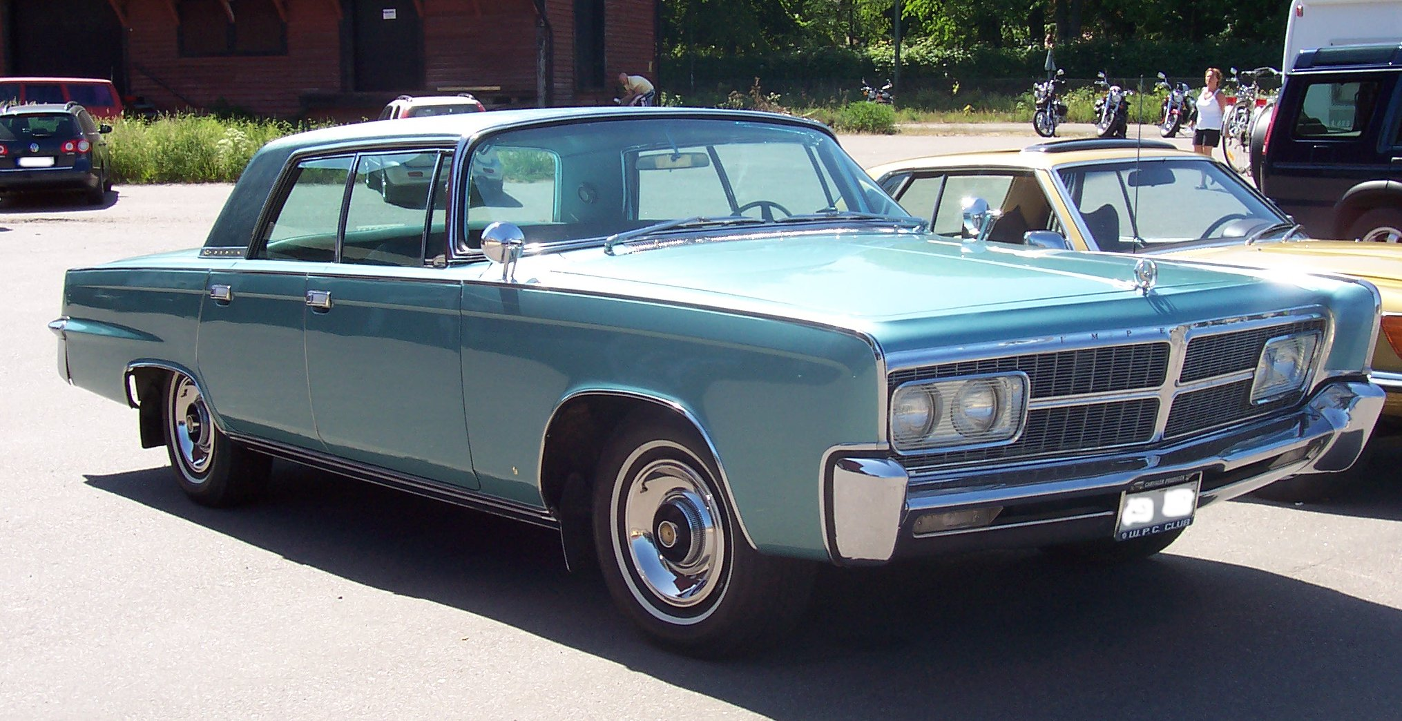 1965 Imperial Crown 4-d hard top